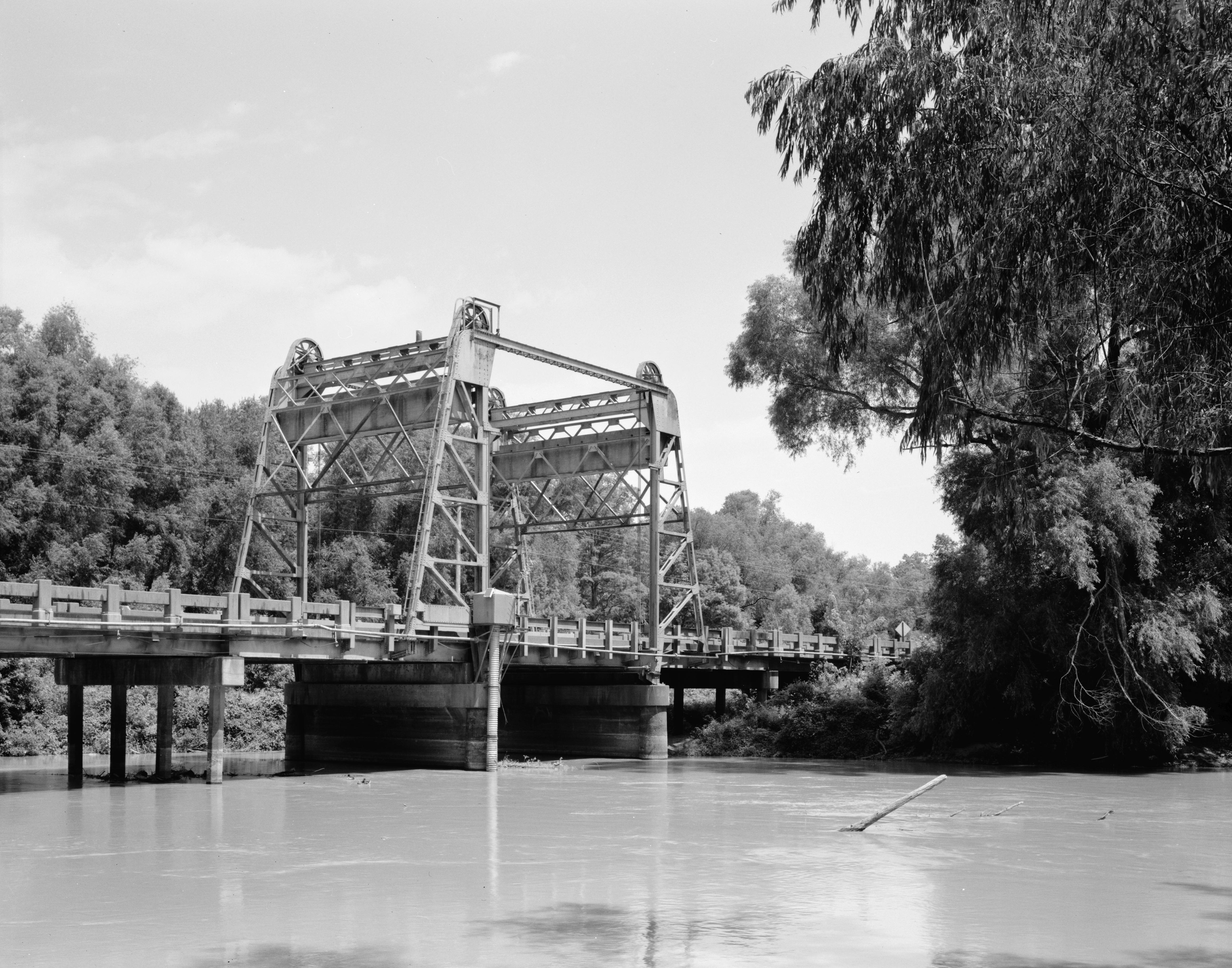 Southern (downstream) side of the St. Francis River Bridge, which carries Highway 18 over the St. Francis River near Lake City in Jackson County, Arkansas, United States. Built in 1934, this I-beam vertical lift bridge is listed on the National Register of Historic Places.